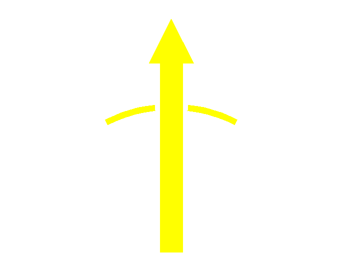 Mark of Ww2 GermanDivision Panzer 20 during WWII- Variant